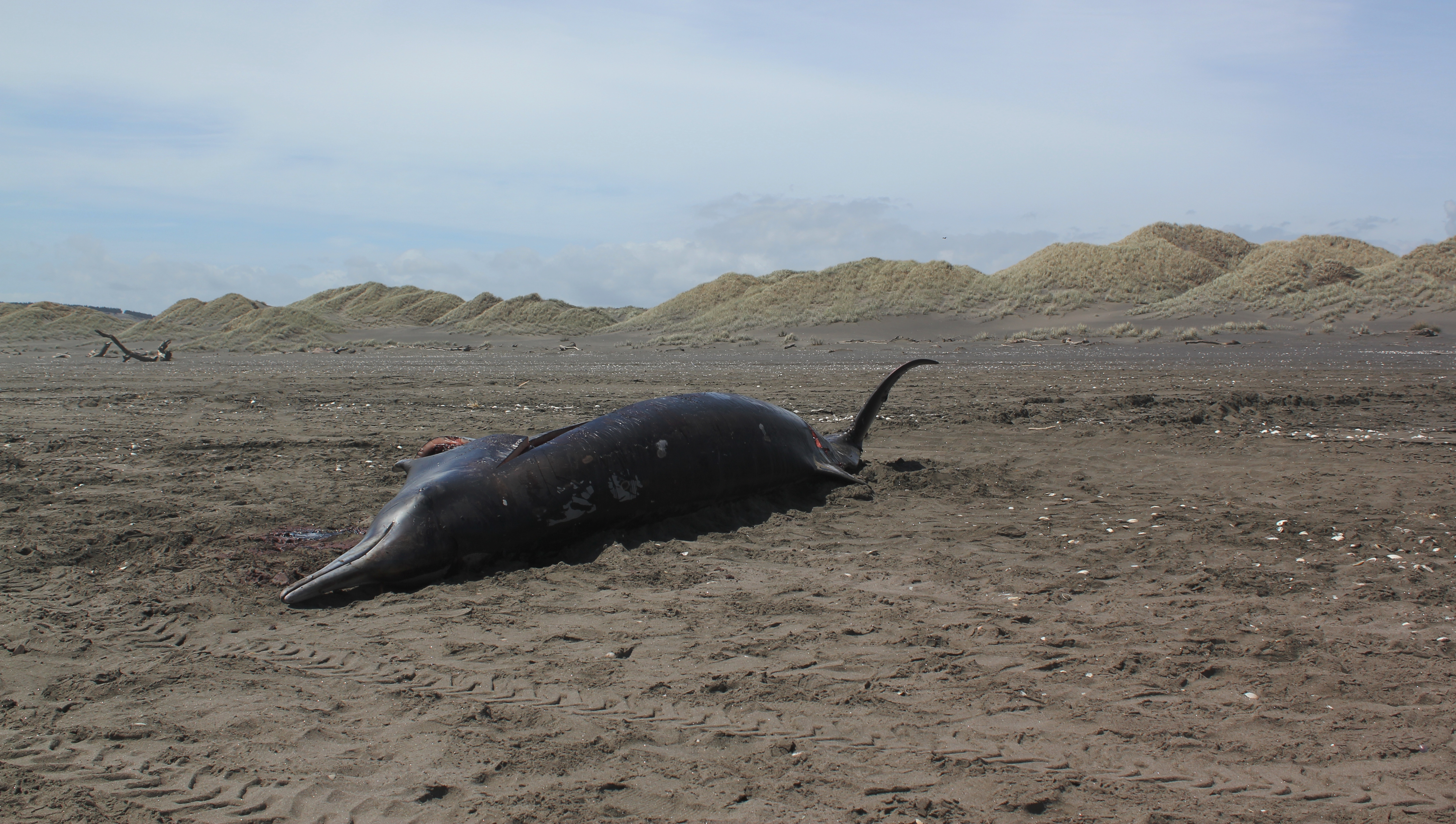 A beaked whale, probably a Gray's beaked whale (Mesoplodon grayi), stranded on Sunset Beach, Port Waikato, New Zealand. Researchers had already conducted an autopsy on this whale.